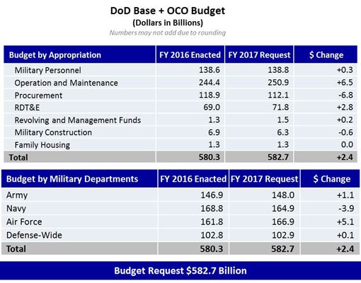 Describes budget by appropriation/military department per 2016 and the proposed budget for 2017, and the change between these years.